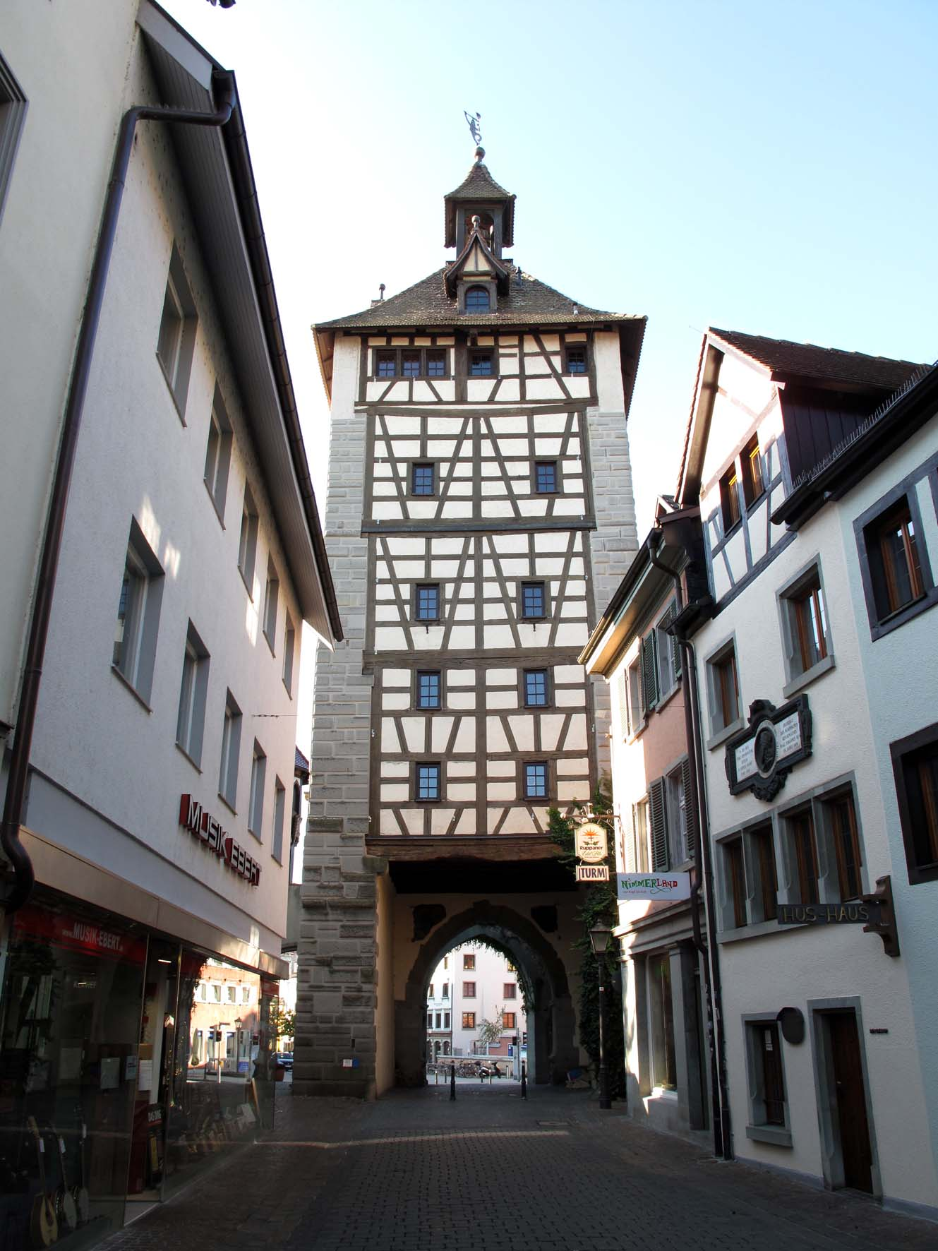 Schnetztor desde la zona interior de la muralla de Constanza